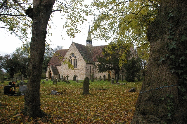 St. Oswald's Church, Worleston after the restoration